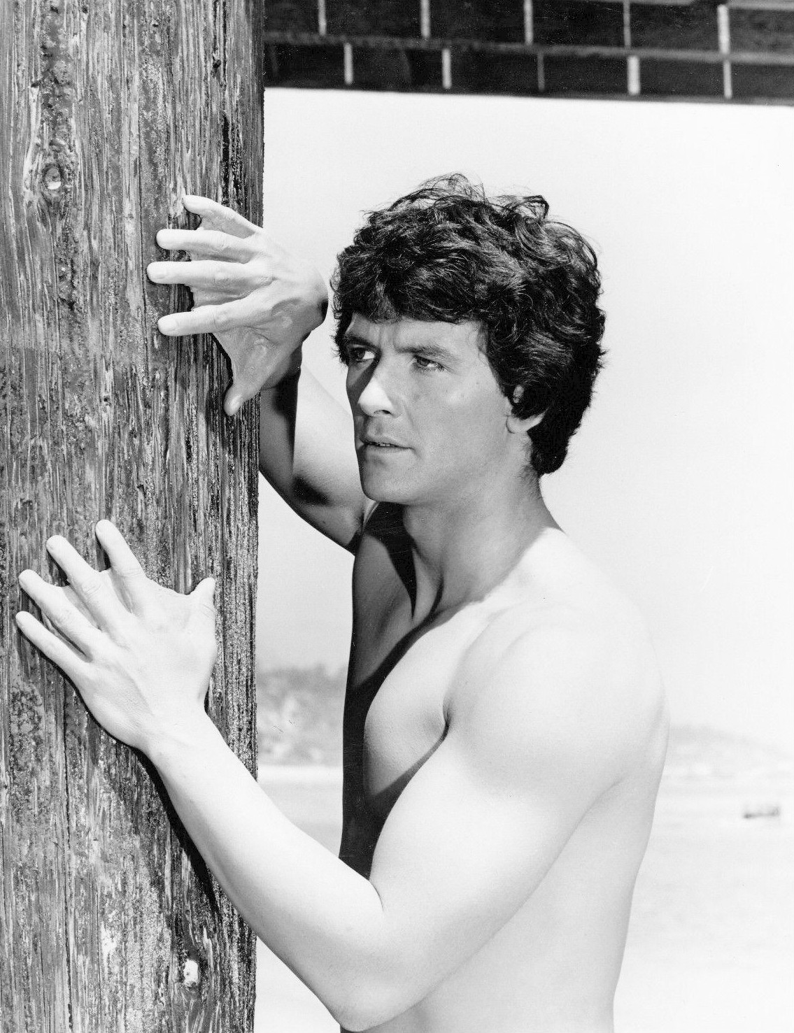 Photo of Patrick Duffy as Mark Harris from the television program Man From Atlantis.